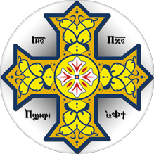 Coptic Orthodox Cross